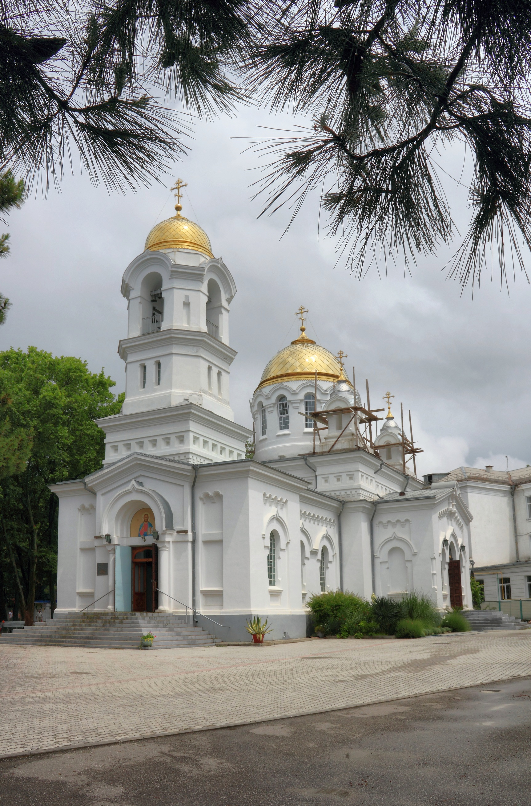 Gelendzhik. Church of the Ascension